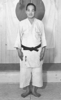 A Japanese judoka, Tobē Kanemoto.